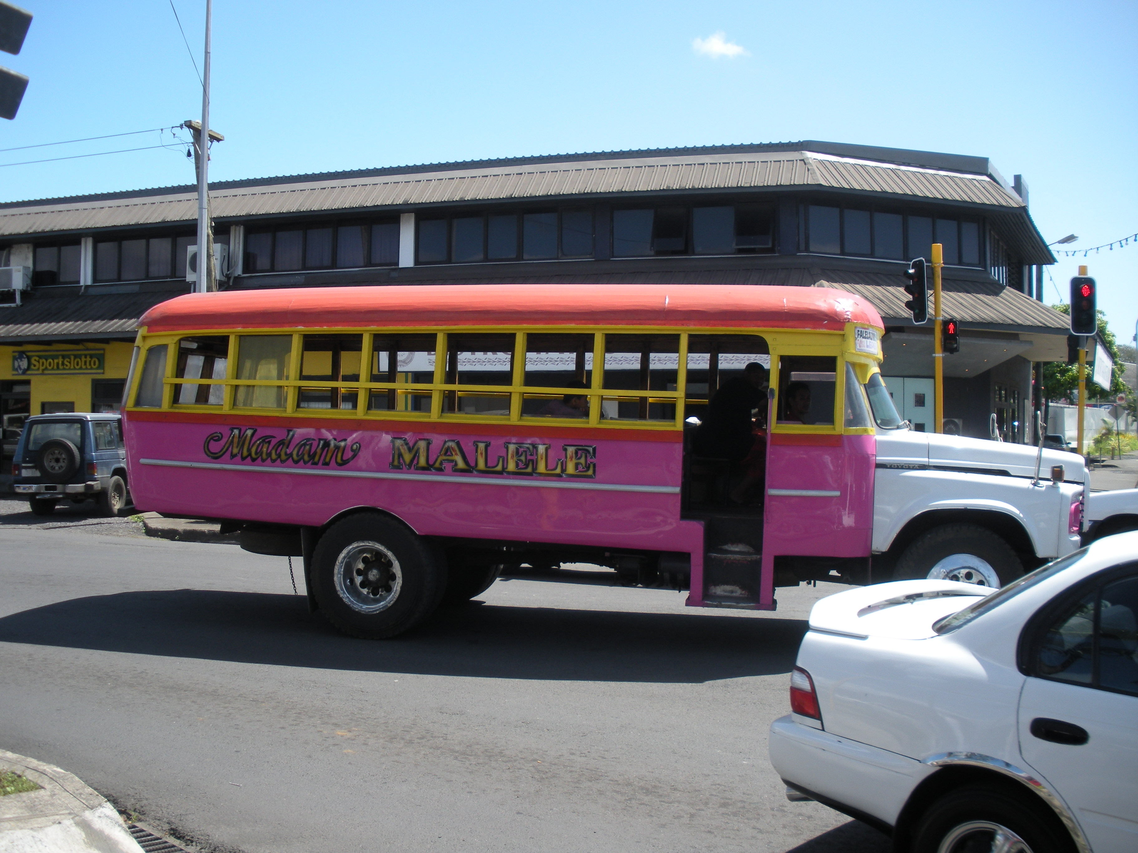 Typical bus in Samoa, painted in bright colours, Apia, 2009